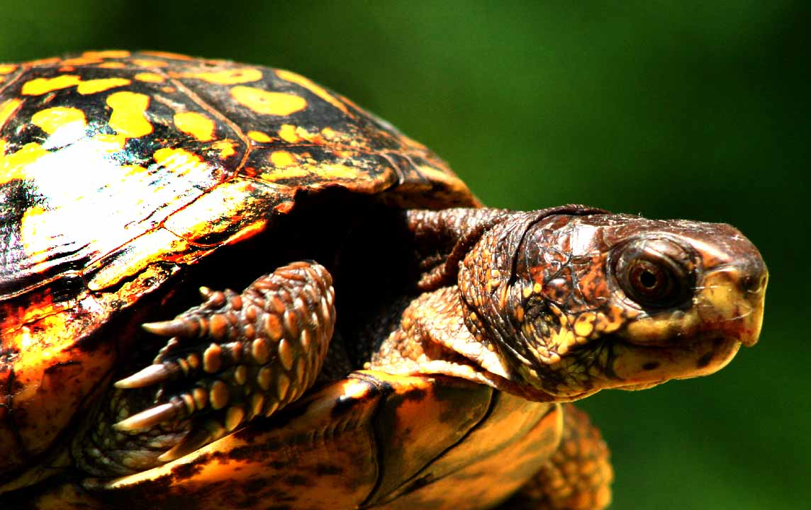 A "Painted Turtle" discovered while hiking in the wilds of the Appalachian Mountains...